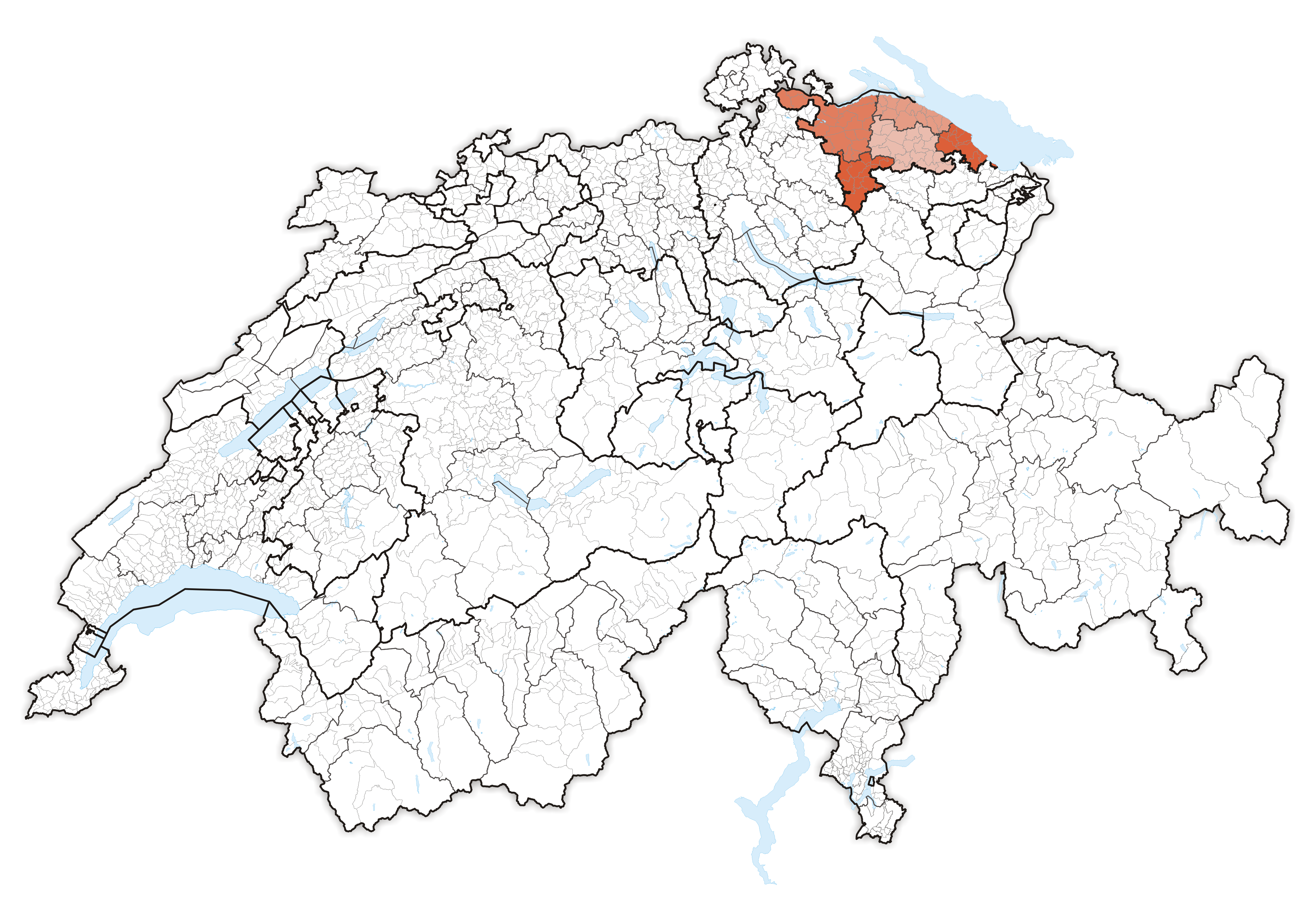 Canton Thurgau